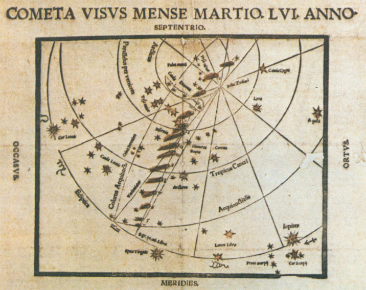 An astronomical broadsheet by Paul Fabricius, court astronomer to Charles 5th in Vienna, showing the the map of the 1556 comet's course.